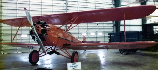 PictionID:41544697 - Catalog:Album 115 Wheels and Wings Museum Image - Title:Array - Filename:AL115 019 Command Aire.tif - Image from Album 115 containing image from the Wheels and Wings Museum---PLEASE TAG this image with any information you know about it, so that we can permanently store this data with the original image file in our Digital Asset Management System.----SOURCE INSTITUTION: San Diego Air and Space Museum